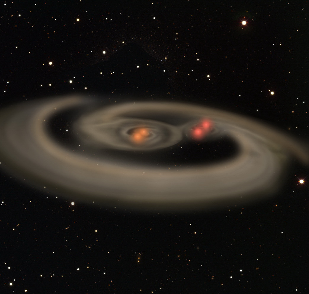 Artist’s view of the gaseous disk that may have once engulfed and maneuvered the quadruple stellar system into its unusually small orbit